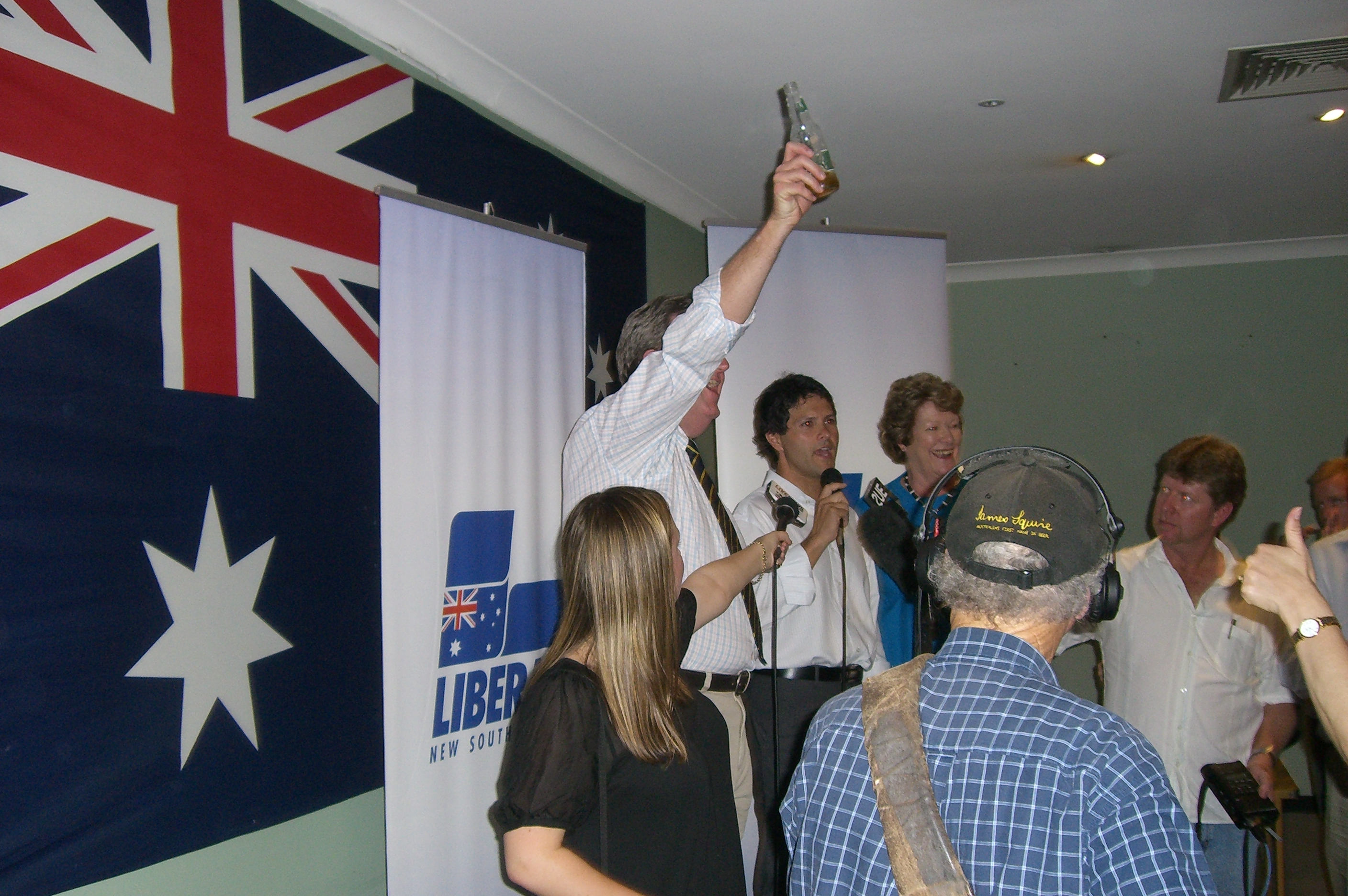 NSW Opposition Leader Barry O'Farrell MP celebrates the 2008 Ryde By-election win with newly elected Member for Ryde Victor Dominello MP and NSW Deputy Opposition Leader Jillian Skinner MP